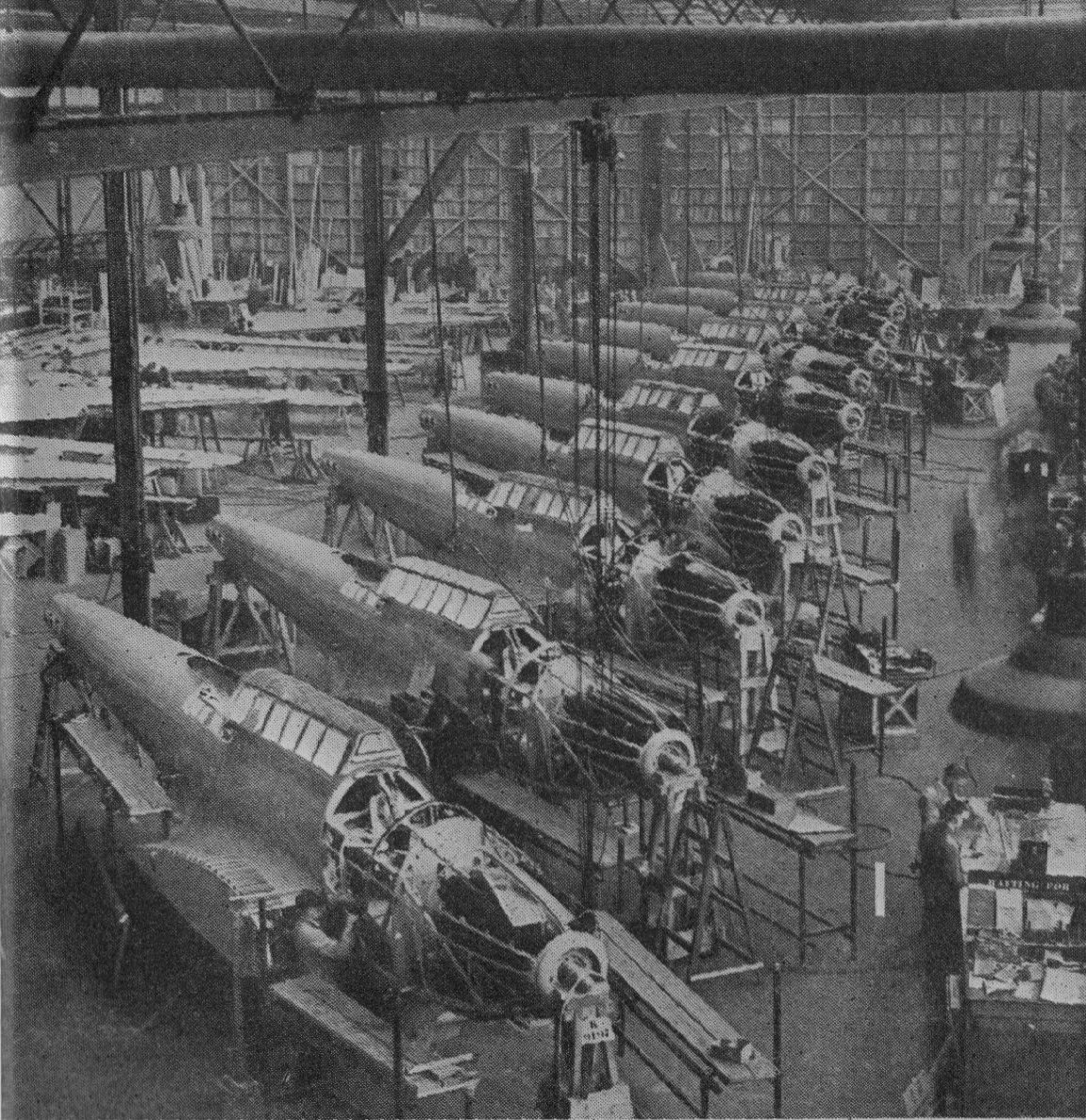 The country's armaments speed-up. Battle bombers in course of construction.